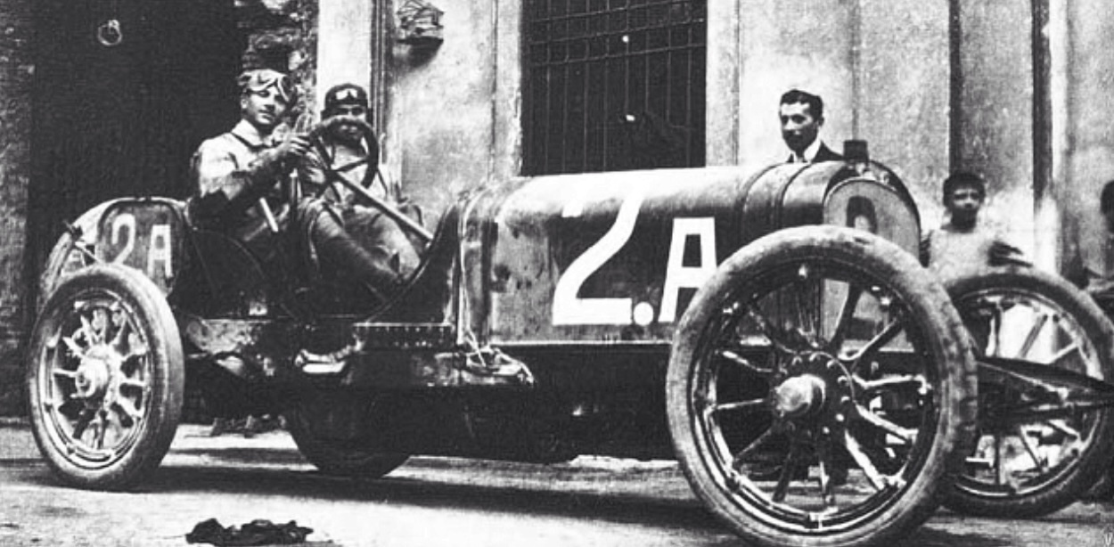 Felice Duzio in Diatto-Clément at Coppa di Velocità, Brescia (2 September 1907). He did 4 of the 8 laps before retiring the race.[1] It seems this race (on 2 September) was the day after the Coppa Florio, also held in Brescia (see front page of the program here: [2], last accessed on 13 Jan 2020)